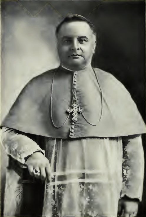 Bishop of Macao João Paulino de Azevedo e Castro.